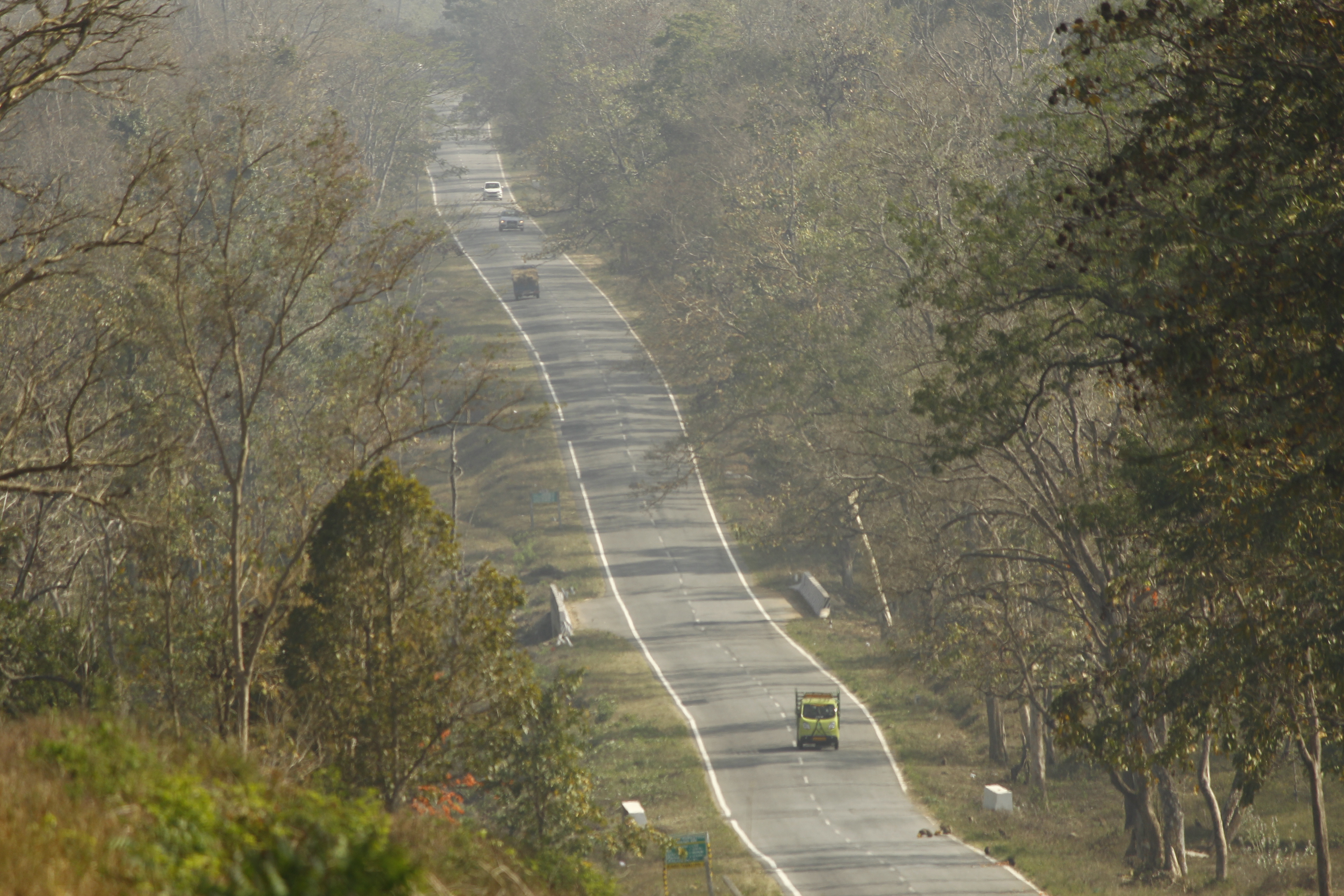 Mysore gundlupet road